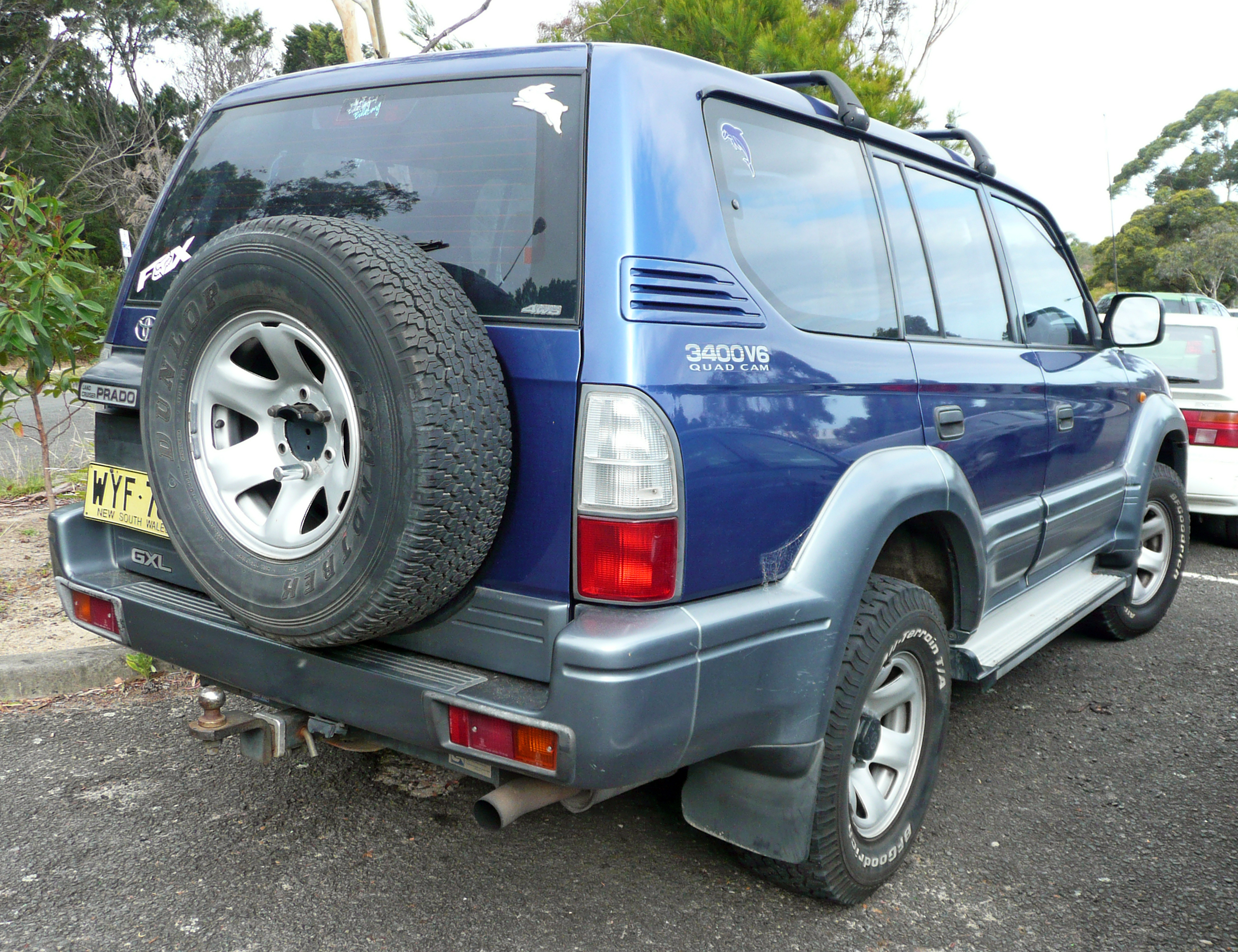 1999–2002 Toyota Land Cruiser Prado (VZJ95R) GXL 5-door wagon. Photographed in Sutherland, New South Wales, Australia.